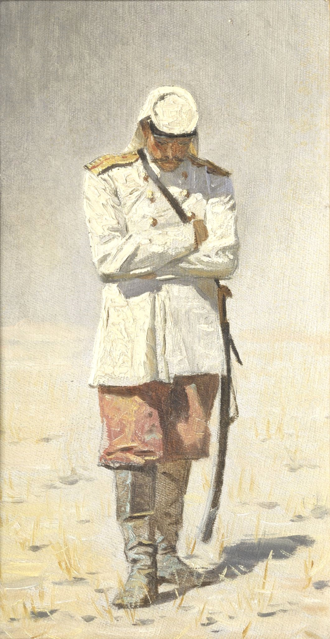 Officer of a Line-battalion in white Kitel (also Gymnastyorka) and red wide breeches’’ (Imperial Russian Army in the Turkestan military region). By V.V. Vereshchagin «Turkistan officer, persists without any movement»; 1873; State Tretyakov Gallery in Moscow.